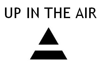 Logo up in the air